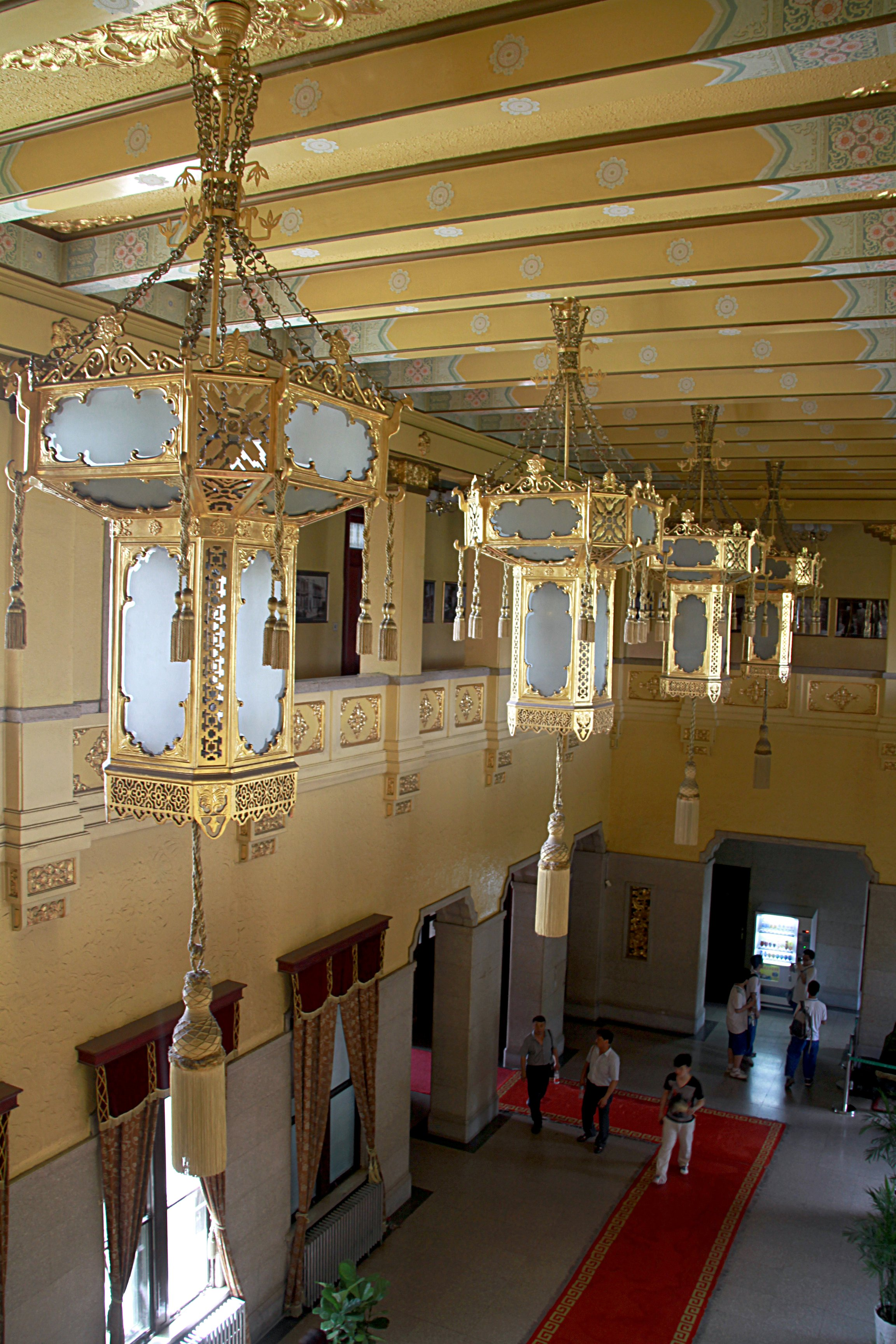 Photograph of the foyer of the Tongde Building in the Museum of the Imperial Palace of the Manchu State, Changchun, Jilin province, northeast China.